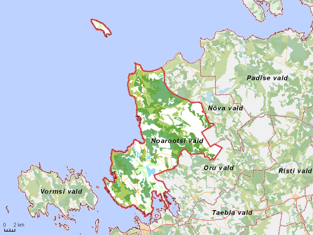 Map of municipality in Estonia